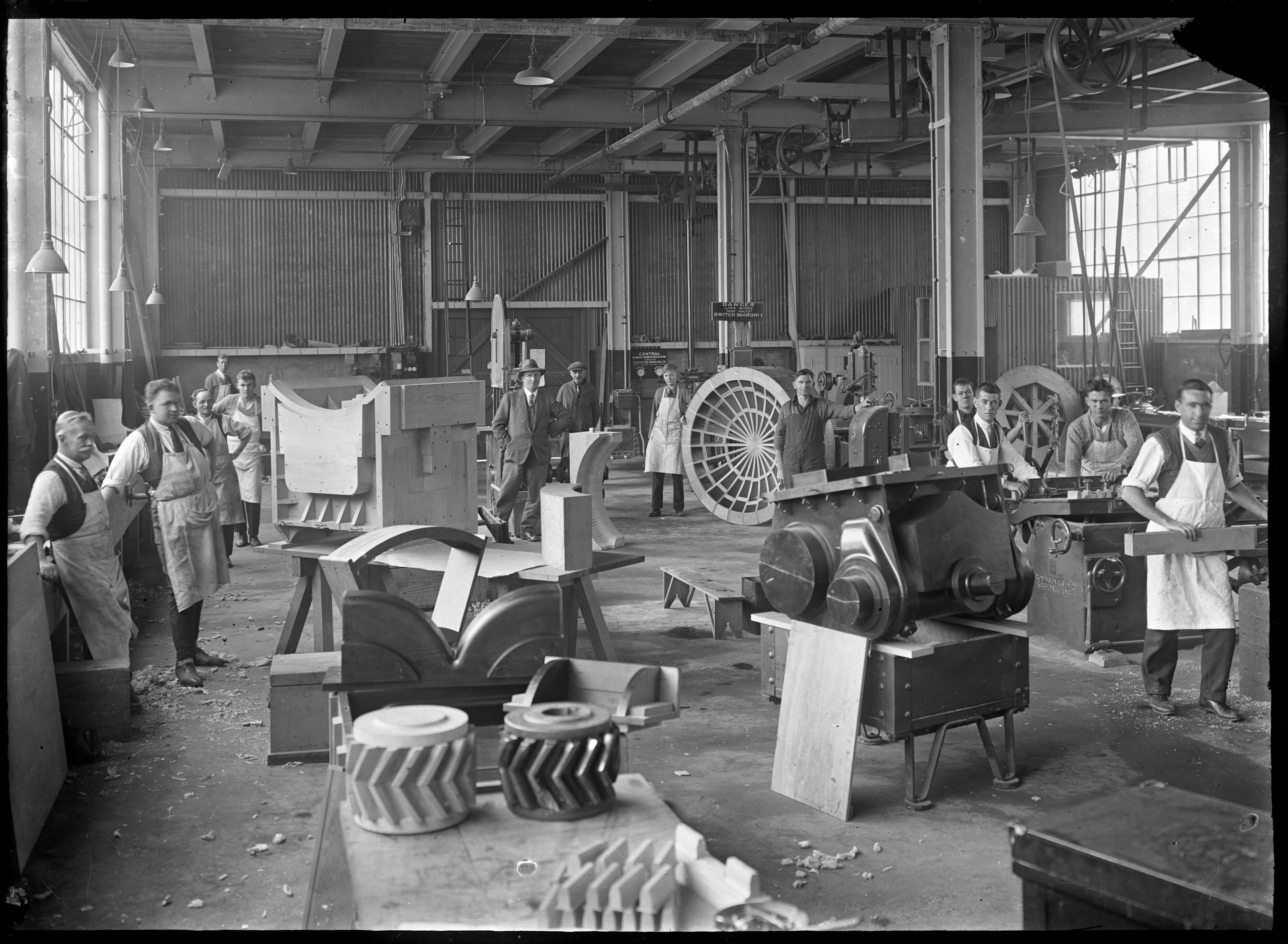 Railway employees working in the pattern shop, where patterns are made in wood prior to moulding. Man on extreme left is identified on the back of the file print as Bob Mather. Probably Tom Mather who is listed in Wise's Post Office Directory (1928-1940s), and the Electoral Roll (Hutt, Lower, 1928-1941) as a pattern-maker, and whose house Godber photographed (APG-0862-1/2). Photographed by Albert Percy Godber in 1929.